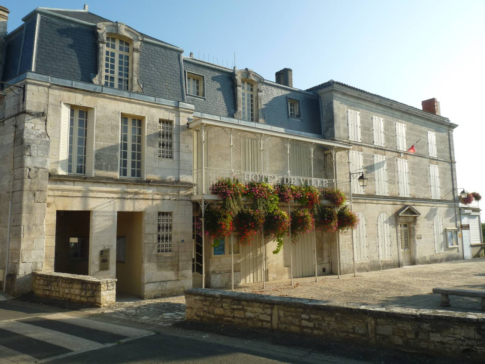 town hall of Fléac, Charente, SW France